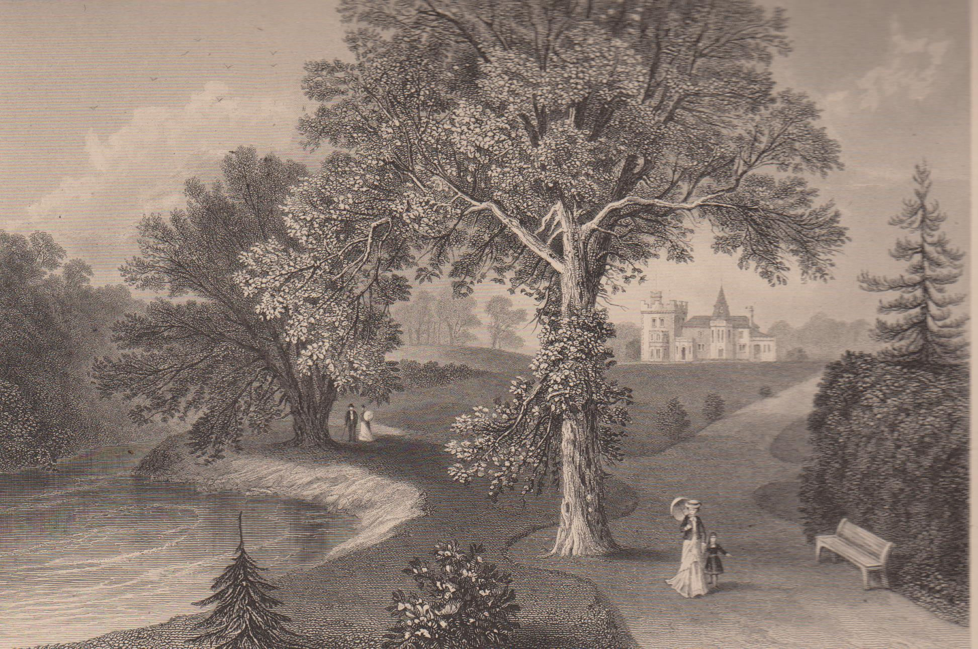 Friars Carse, circa 1800. The home of Robert Riddell and close to Ellisland Farm, home of Robert Burns. Auldgirth, Dumfries, Scotland.